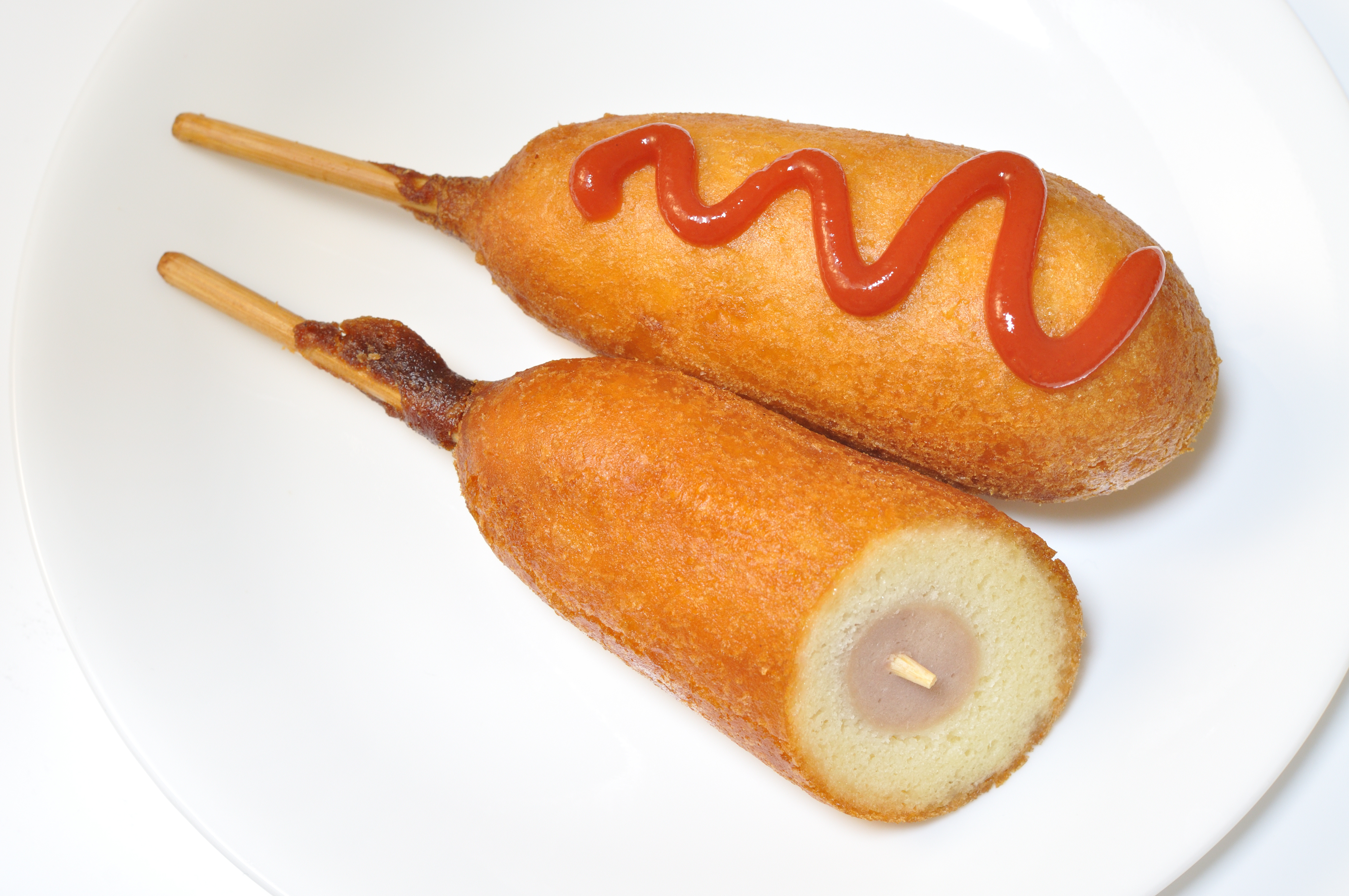 Typical example of Corn dog from Japan.